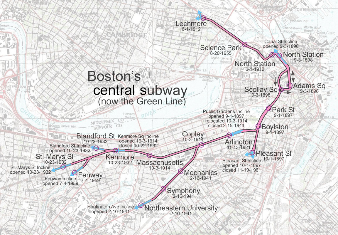 Tremont Street Subway in Boston, Massachusetts Corrections: Haymarket Station is mislabeled as the easterly duplicate North Station. The Canal Street incline closed in the 2000s, and was replaced by a new portal between North Station and Science Park. Adams Square was closed during the creation of Government Center, and the tunnels in this area re-routed. Pleasant Street station closed when the portal closed. Scollay Square is now Government Center. The Massachusetts (Avenue) stop was later renamed Auditorium and is now Hynes Convention Center. Mechanics is now Prudential.